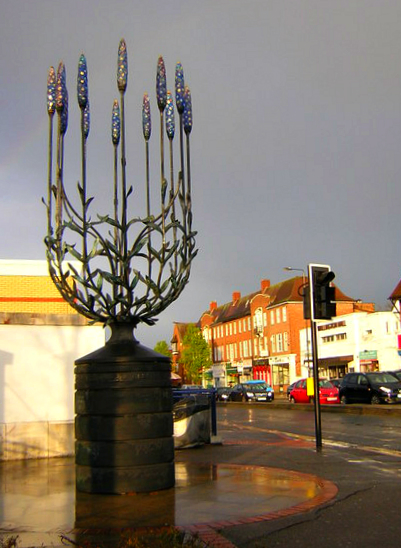 The slopes of the North Downs in what is now the London Borough of Sutton have been a centre for lavender cultivation for centuries. This sculpture is one of the ways the area marks this heritage; among others, local Scouts use lavender as the logo for the Sutton area on their shoulder badges.